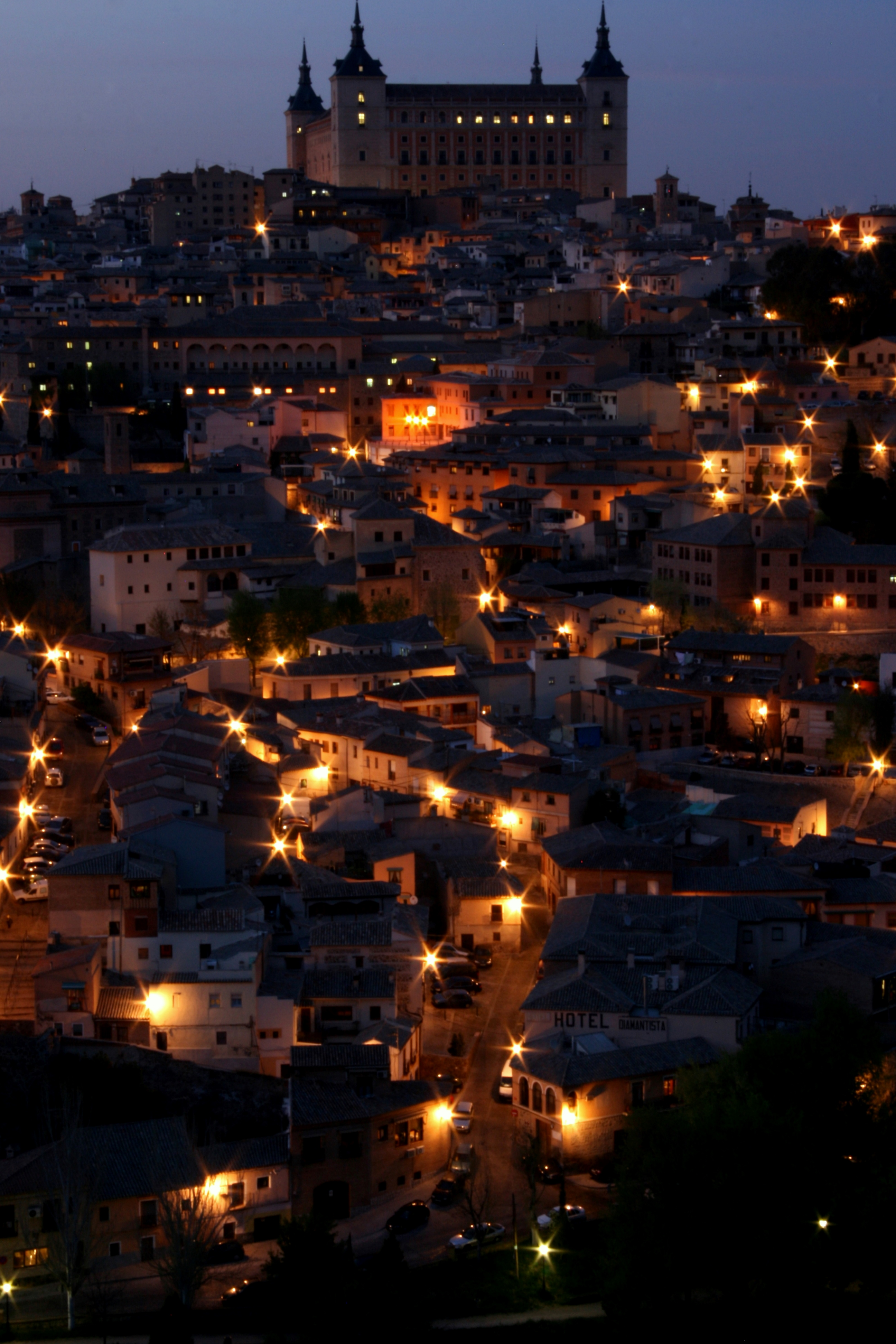 Dusk view over the city of Toledo.